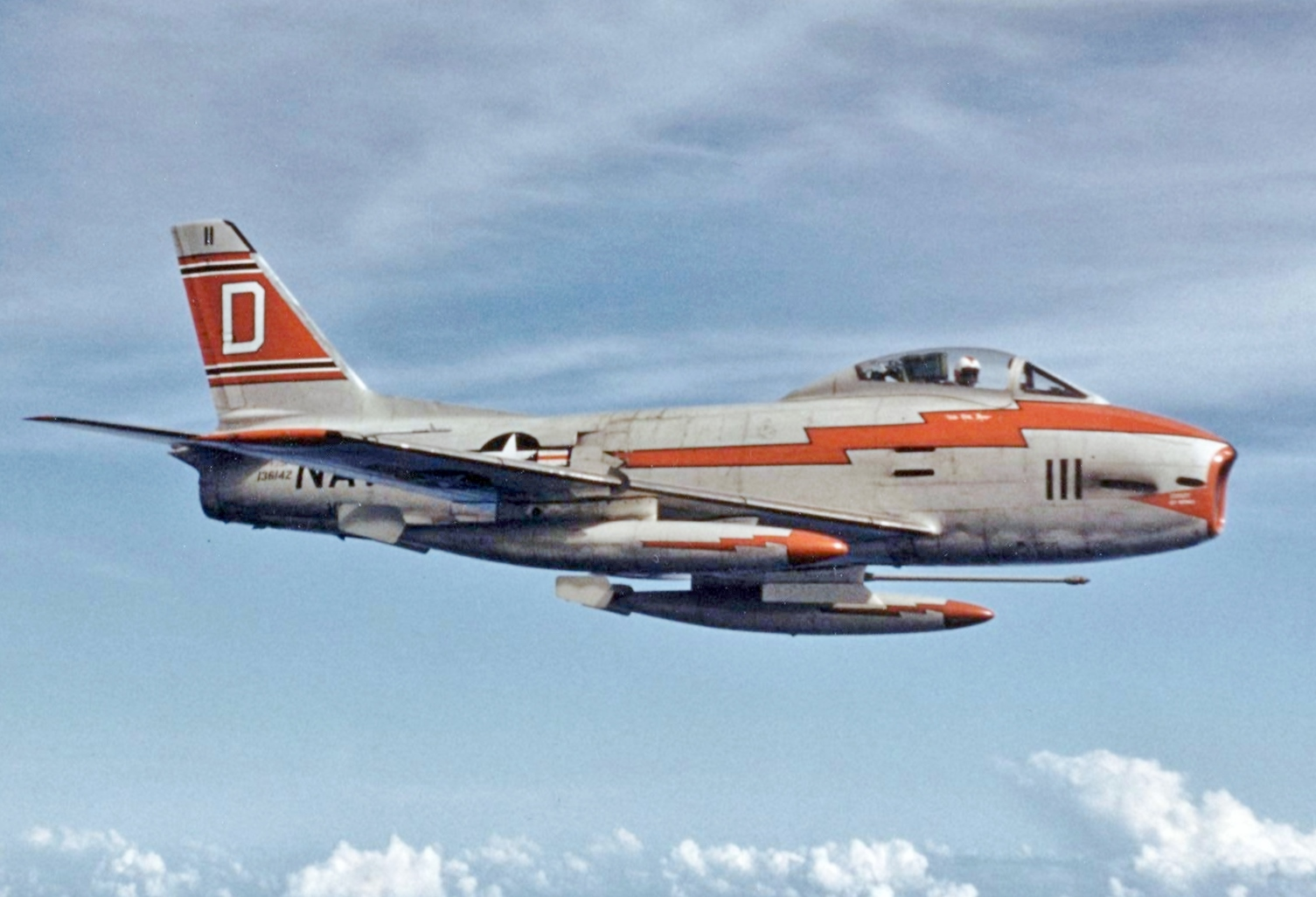 A U.S. Navy North American FJ-3M Fury (BuNo 136142) from Fighter Squadron VF-121 Peacemakers in flight over Southern California. VF-121 was assigned to Carrier Air Group 12 (CVG-12) for a deployment to the Western Pacific aboard the aircraft carrier USS Lexington (CVA-16) from 19 April to 17 October 1957.